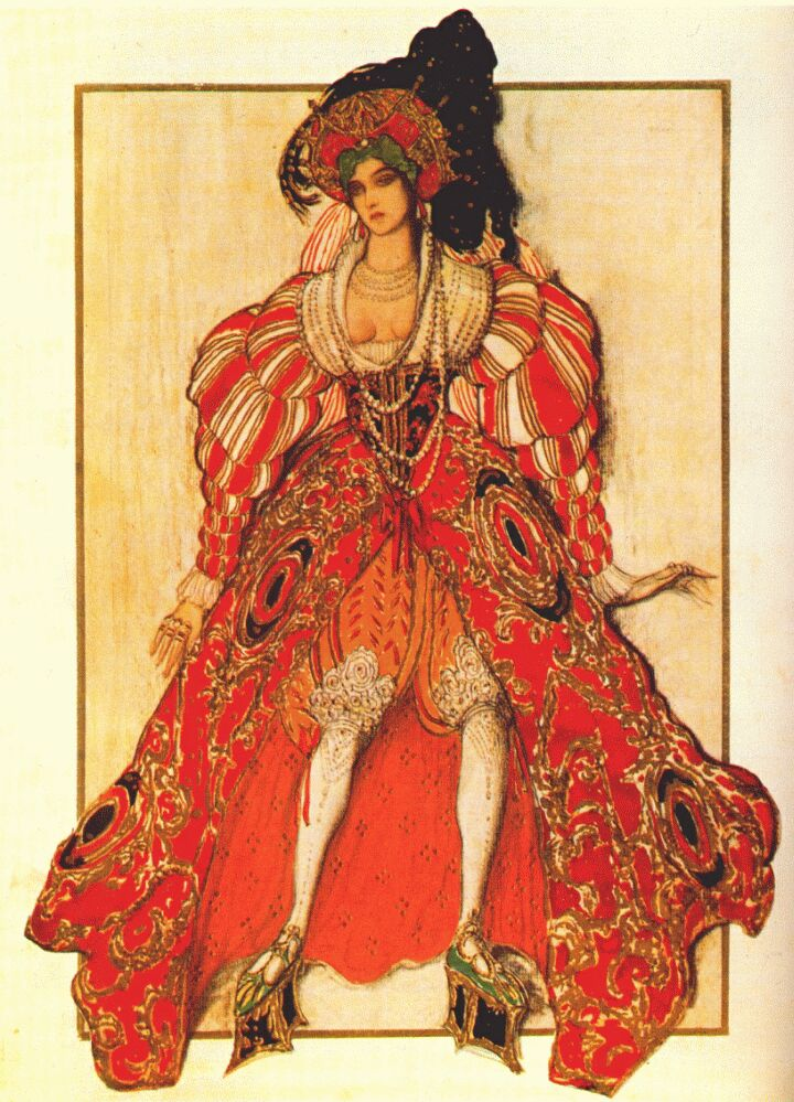 Potiphar's wife